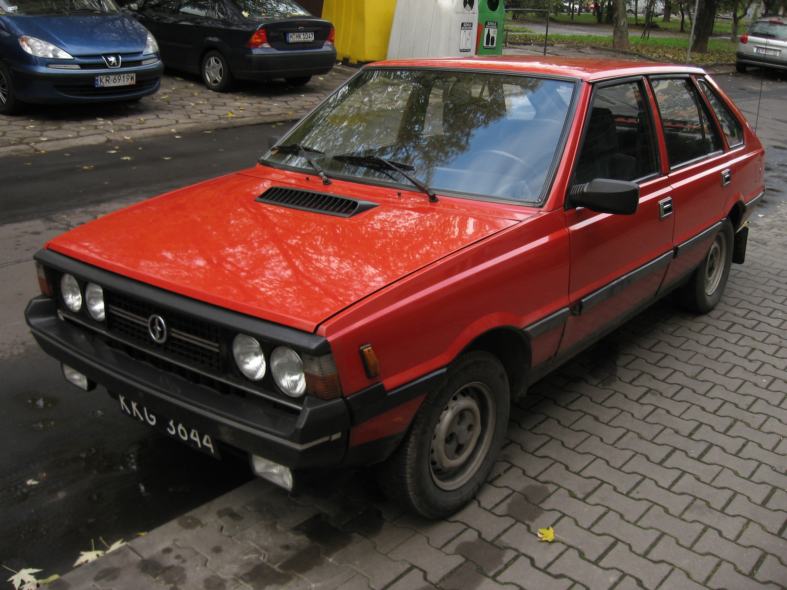 Red FSO Polonez MR'87 1.5 SLE with the front from FSO Polonez MR'83 in Kraków. This example was produced in 1989.